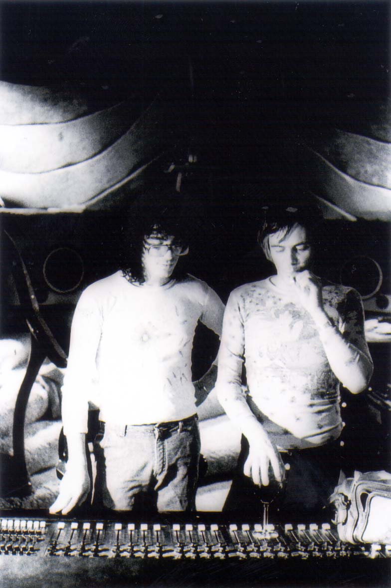 Jimmy Robinson and Gary Kellgren in the " Pit" Sauslito ,Ca.1974